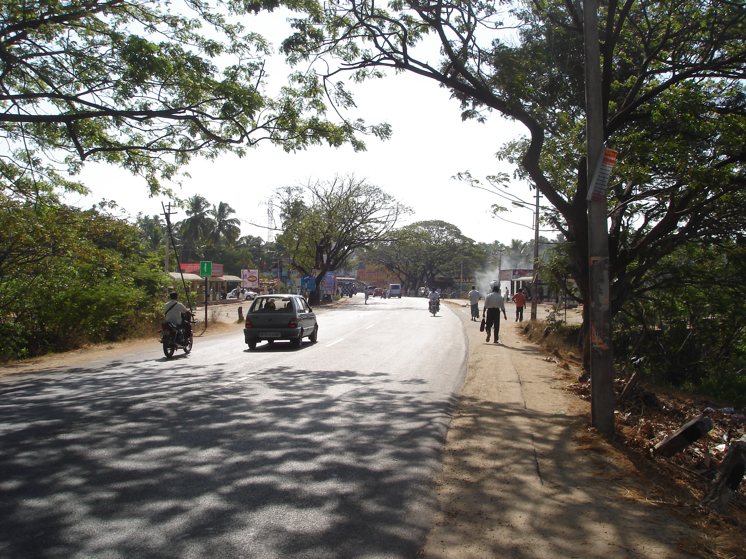 Parvathipuram bus stand